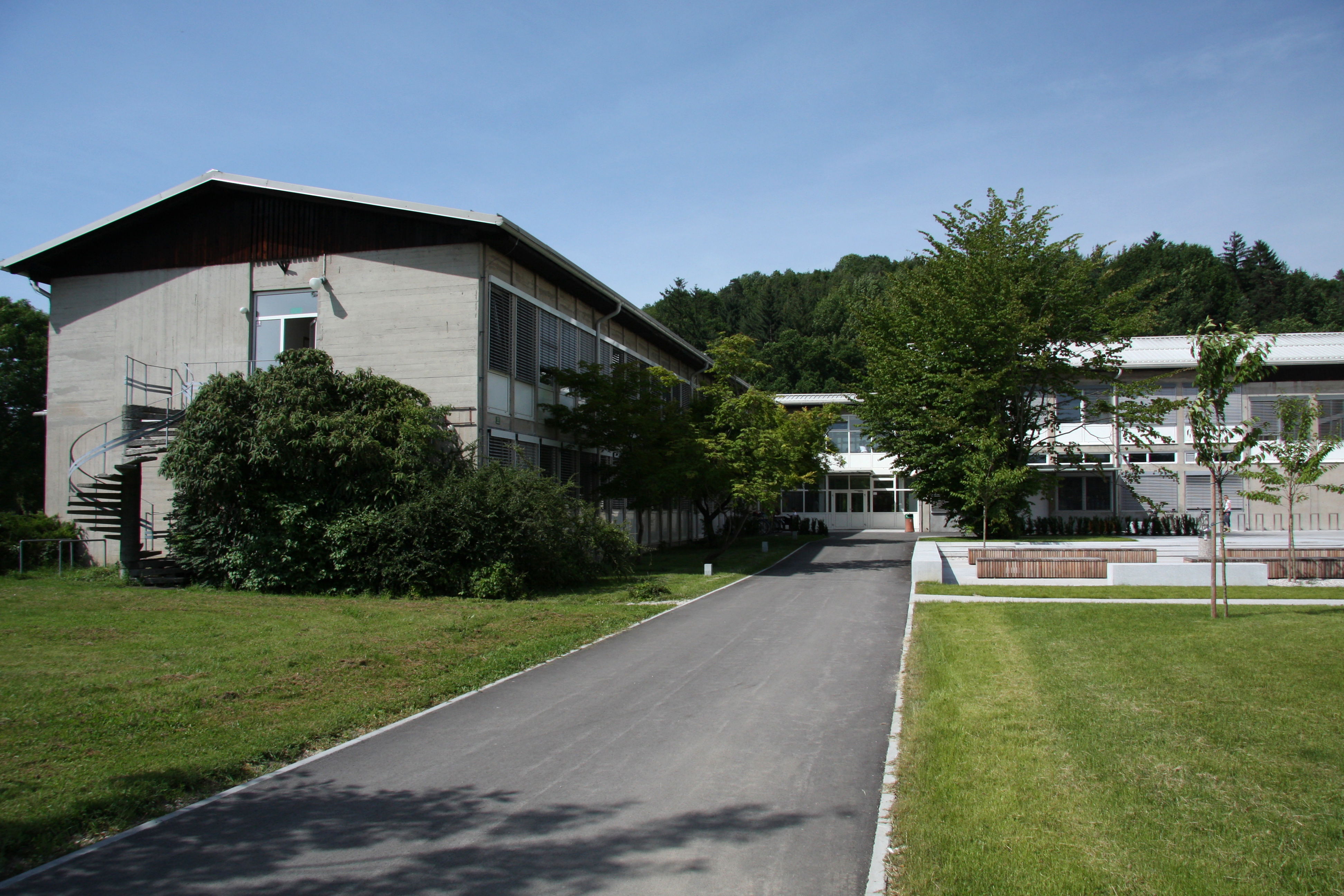 Building housing the department of food science at the Biotechnical faculty Ljubljana.